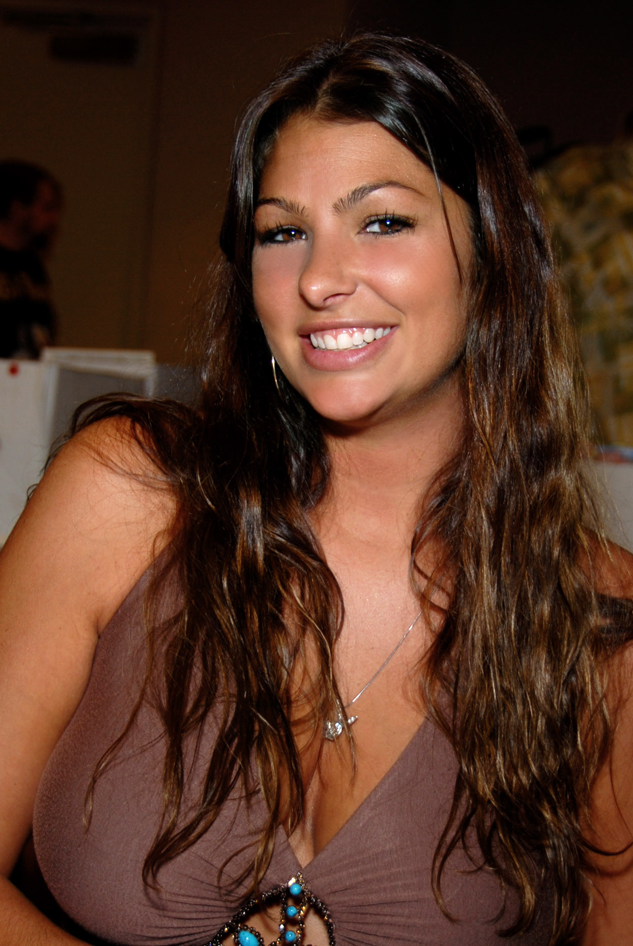 Amber Campisi at Glamourcon, Los Angeles, CA on October 7, 2007 - Photo by Glenn Francis of